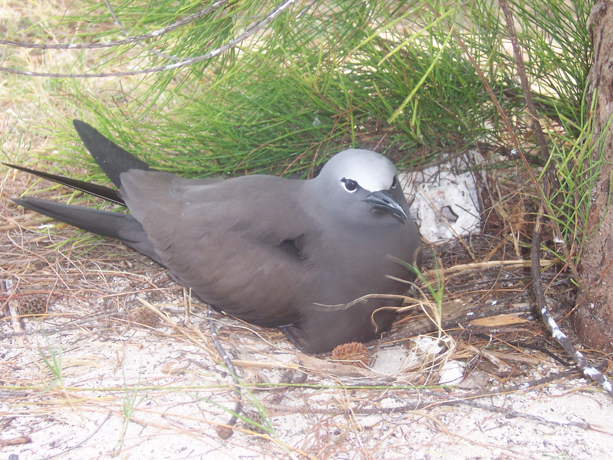 Anous stolidus (Common Noddy or Brown Noddy) on Île aux Cocos (Rodrigues island), nesting on ground